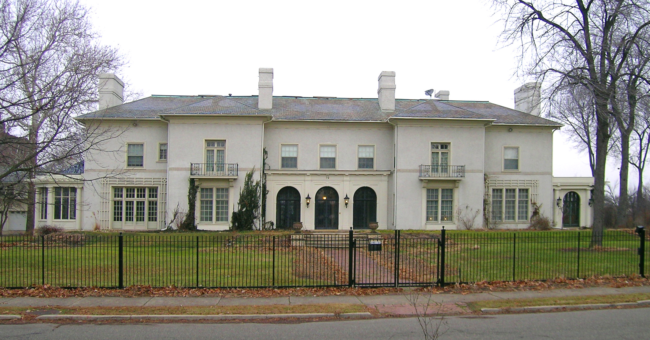 Front of the S.S. Kresge House on Boston Boulevard in Detroit, Michigan. Built in 1914, it is a contributing property to the Boston-Edison Historic District, and on the National Register of Historic Places.